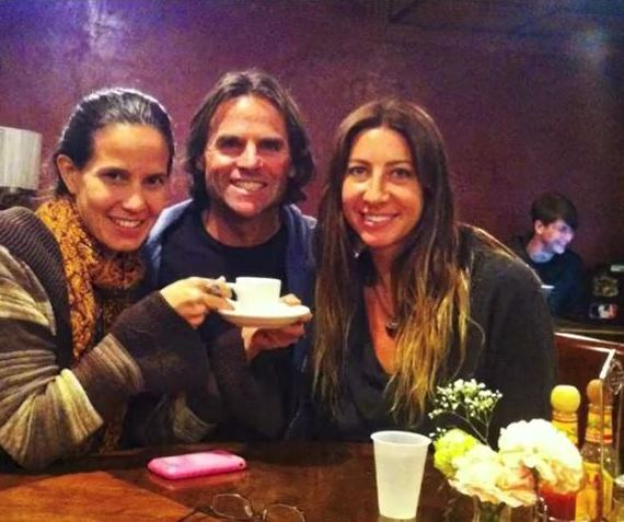 polyamorists